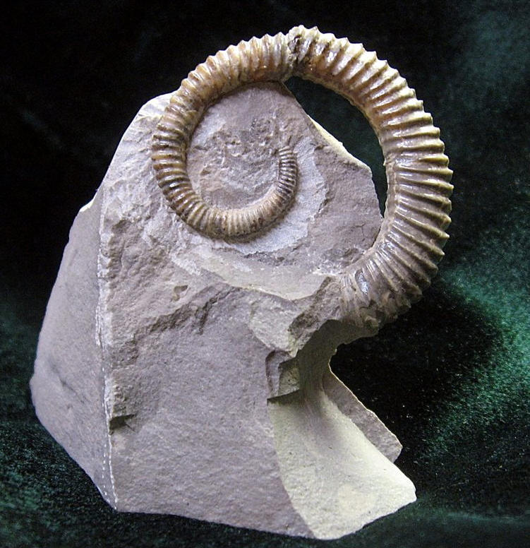 A fossil of Allocrioceras pariense partly etched from the shale matrix. The shell is 3.7cm (1.5 inch) in diameter. From the Cretaceous Tropic Shale, Garfield County, Utah. In the Stonerose Interpretive Center Collections.